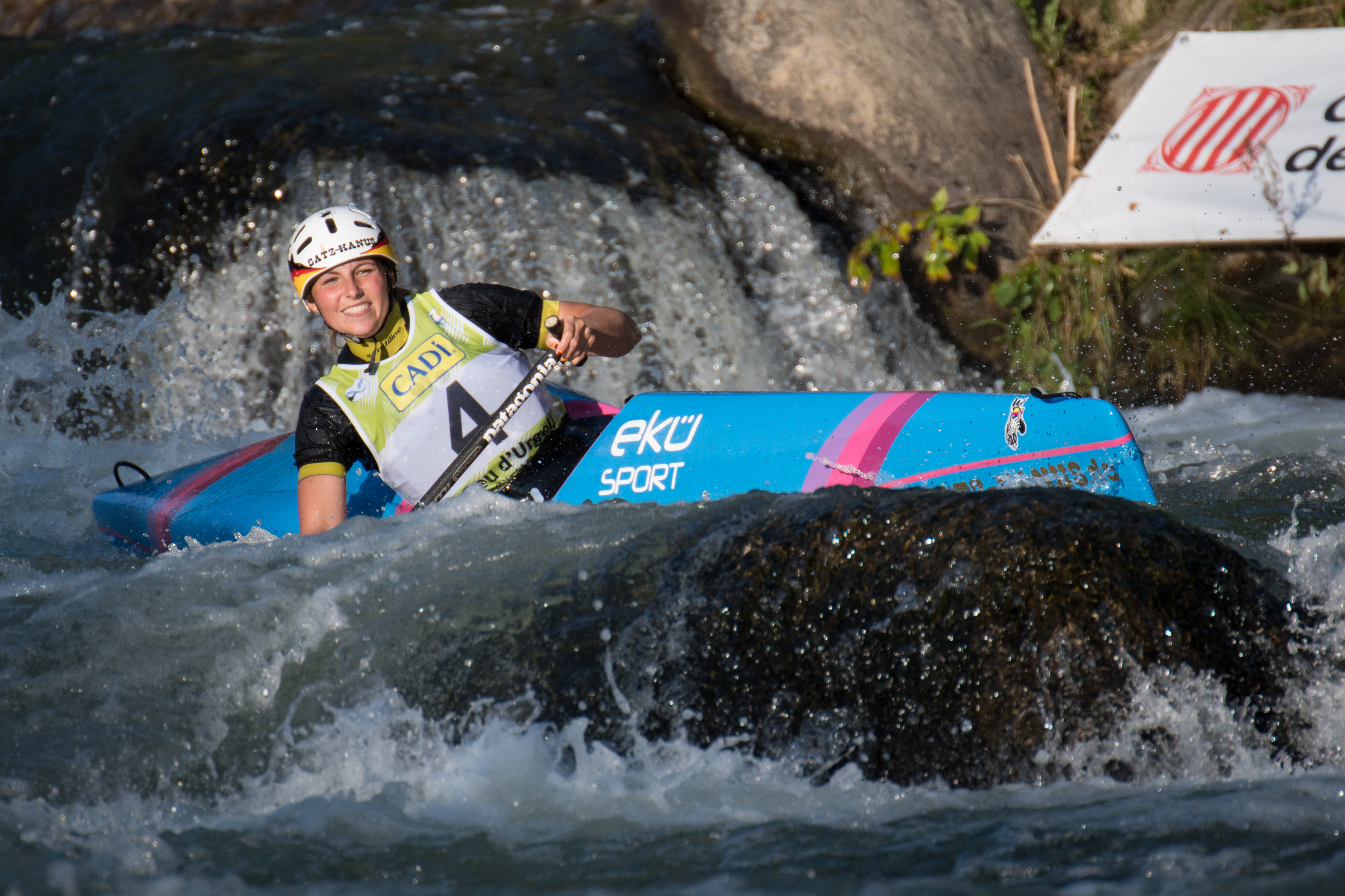 Maren Lutz during the 2019 Canoe Wildwater World Championships in La Seu d'Urgell, Spain.